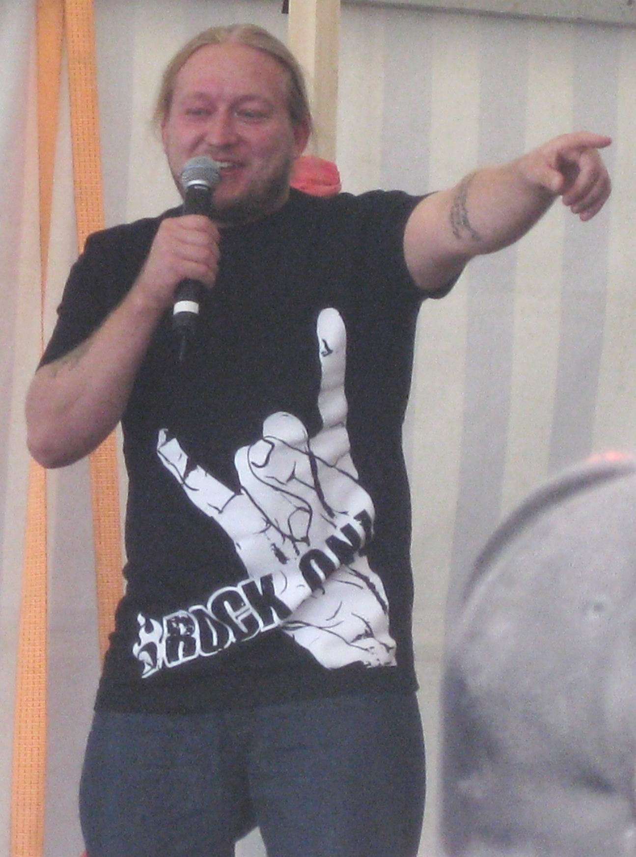 Jarno "Jarppi" Leppälä from The Dudesons in front of shopping mall Lanterna in Roihupelto, Helsinki